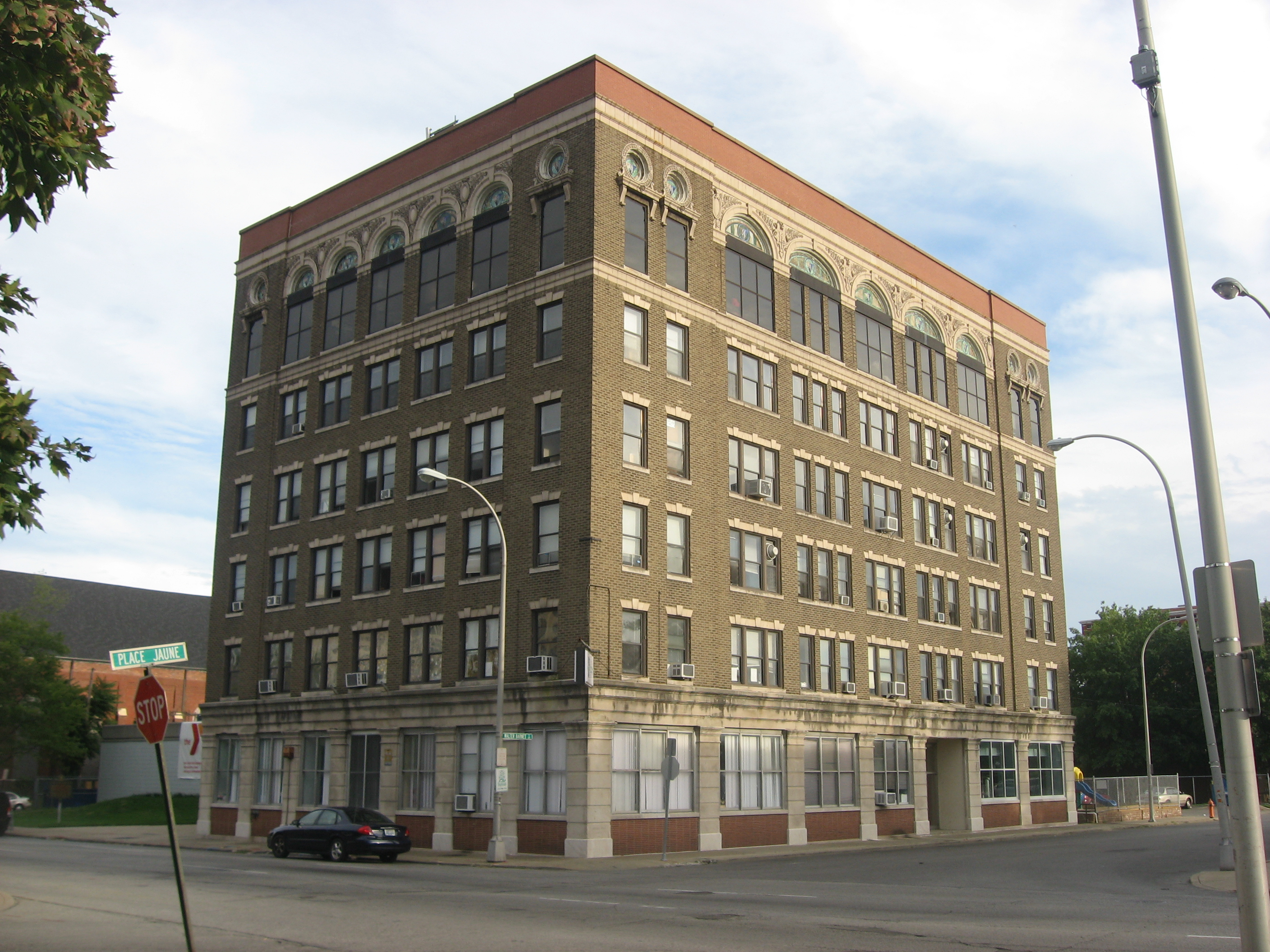 Front and western side of the Knights of Pythias Temple, located at 928-932 W. Chestnut Street in the West End of Louisville, Kentucky, United States. Built in 1914, it is listed on the National Register of Historic Places.